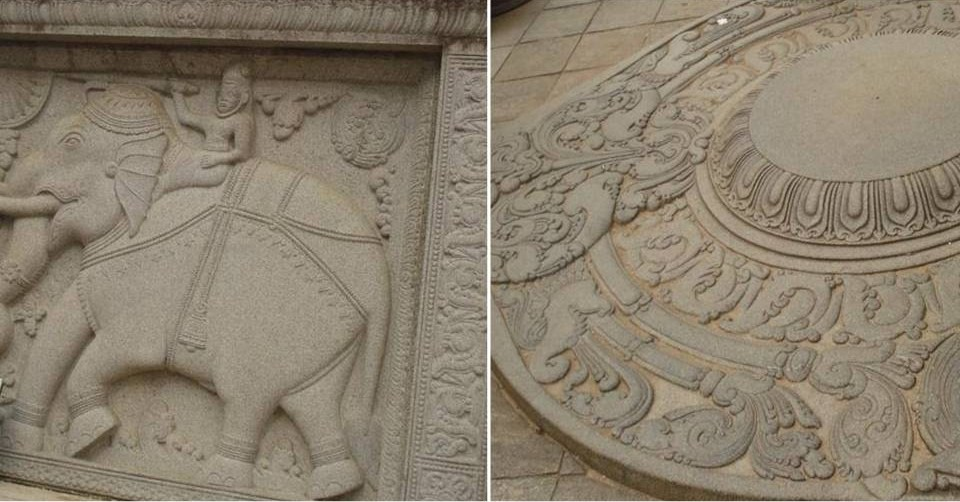 Two stone carvings at the Temple of the Tooth, Sri Lanka: elephant carving (left) and the moonstone (right)